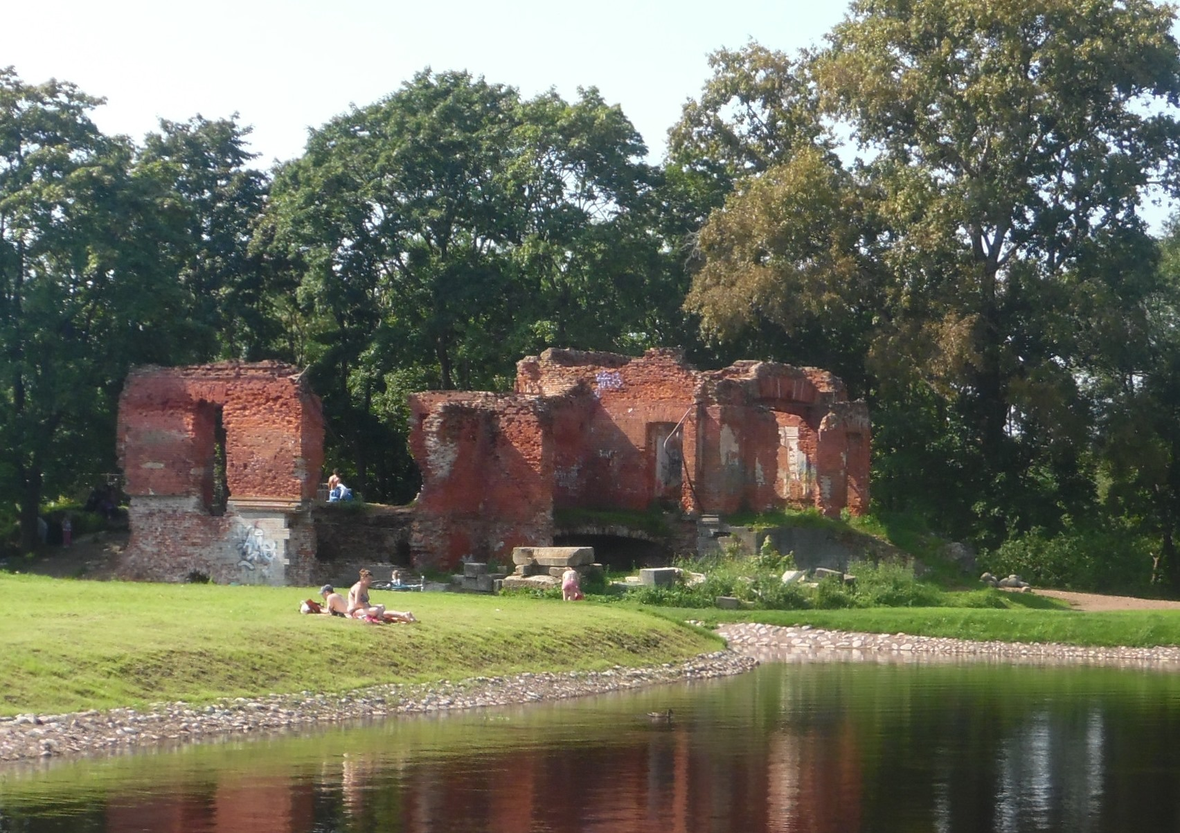 Peterhof, Lugovoj park 12